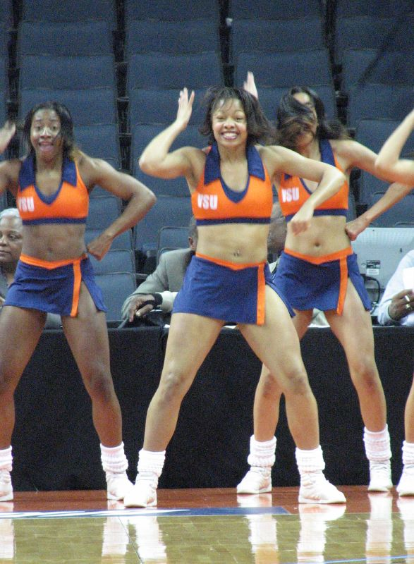 The Woo Woos (the cheerleaders from Virginia State University, USA) during the CIAA 2007 Basketball Tournament